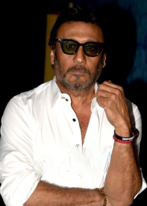 Jackie Shroff graces the screening of Sonata.